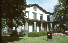 Dey House